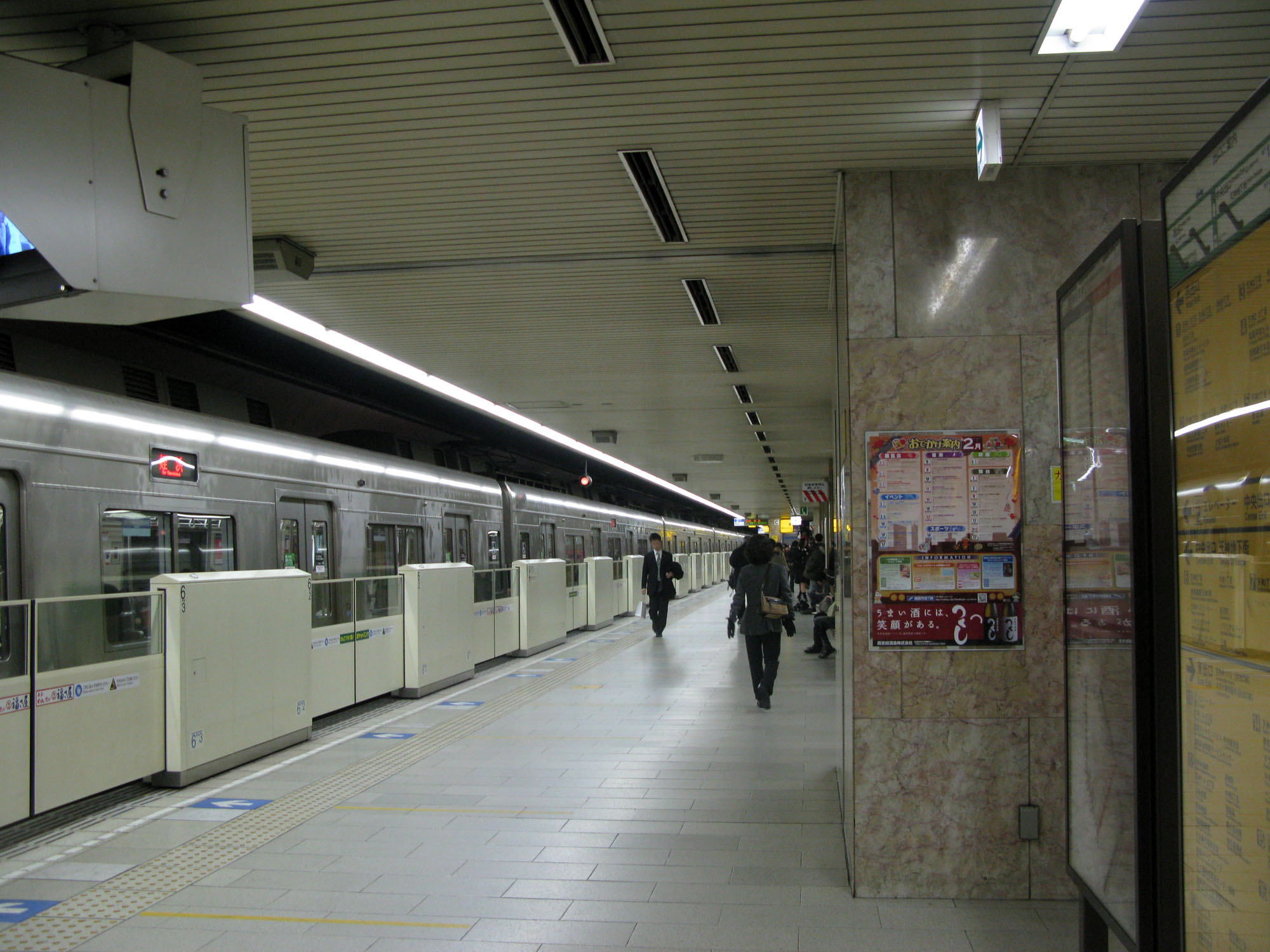 Kūkō Line Tenjin Station